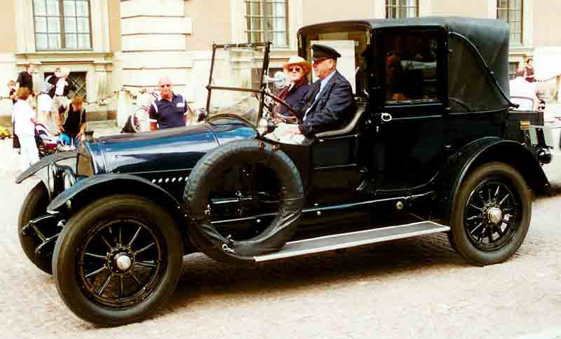 1918 Cadillac Type 57 Town Landaulet